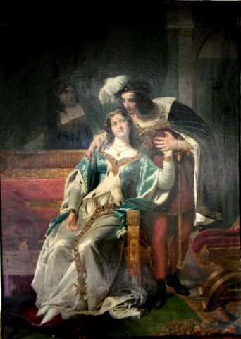 Rosemonde Clifford and King Henry II of England, oïl on canvas painted by Raymond Auguste Quinsac Monvoisin (142x100 cm) signed and dated 1827; presented at the Salon of 1827, mentioned in the catalog N°745.